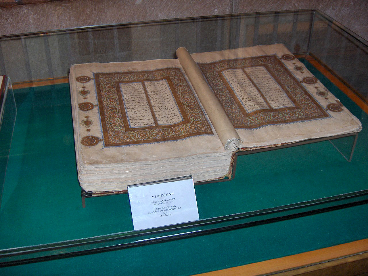 The Mathnawî of Mevlâna (1278) ; Ritual Hall (Semahane); Mevlâna mausoleum; Konya, Turkey